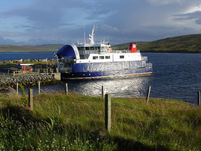 Whalsay Ferry at Laxo Ferry Terminal. This car farry plies a regular service between Laxo Ferry Terminal, seen here and the Island of Whalsay.